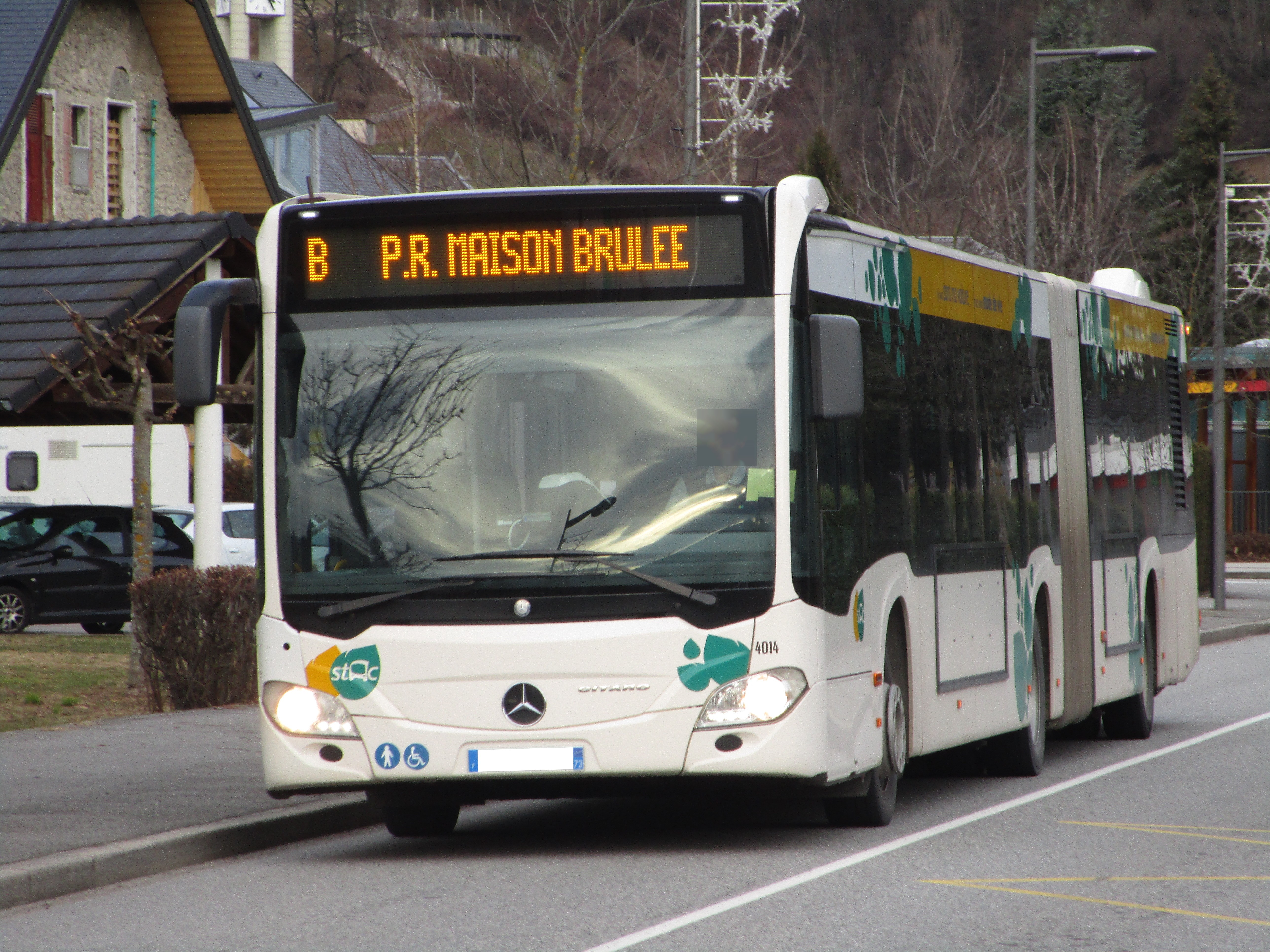 The Mercedes-Benz Citaro G C2 n°4014 of the Stac, on the line Chrono B (Roc Noir, Barby↔Parc Relais Maison Brulée, Chambéry), in Barby on February 11, 2016.